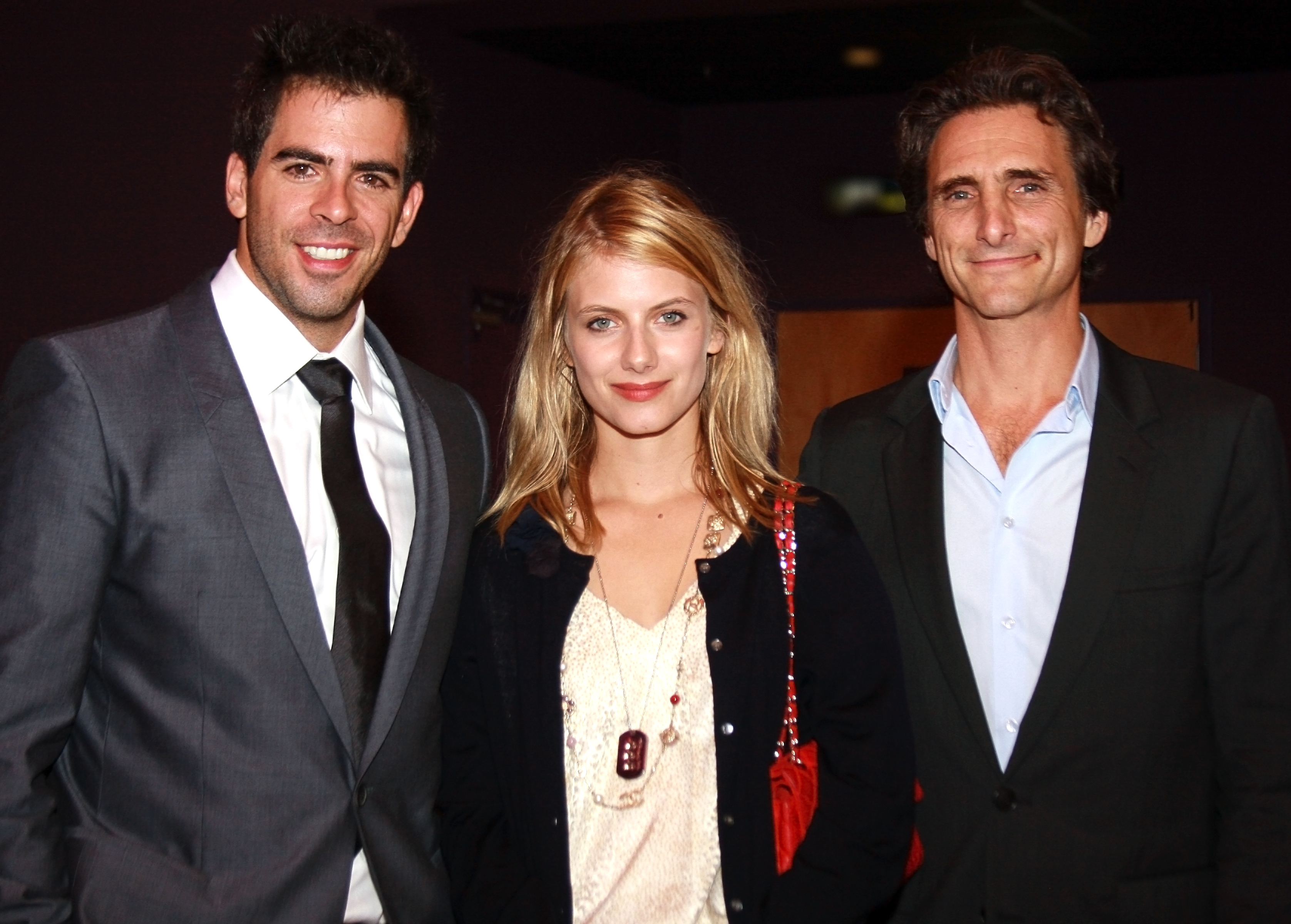 Eli Roth, Mélanie Laurent, and Lawrence Bender at a premiere for Inglourious Basterds.